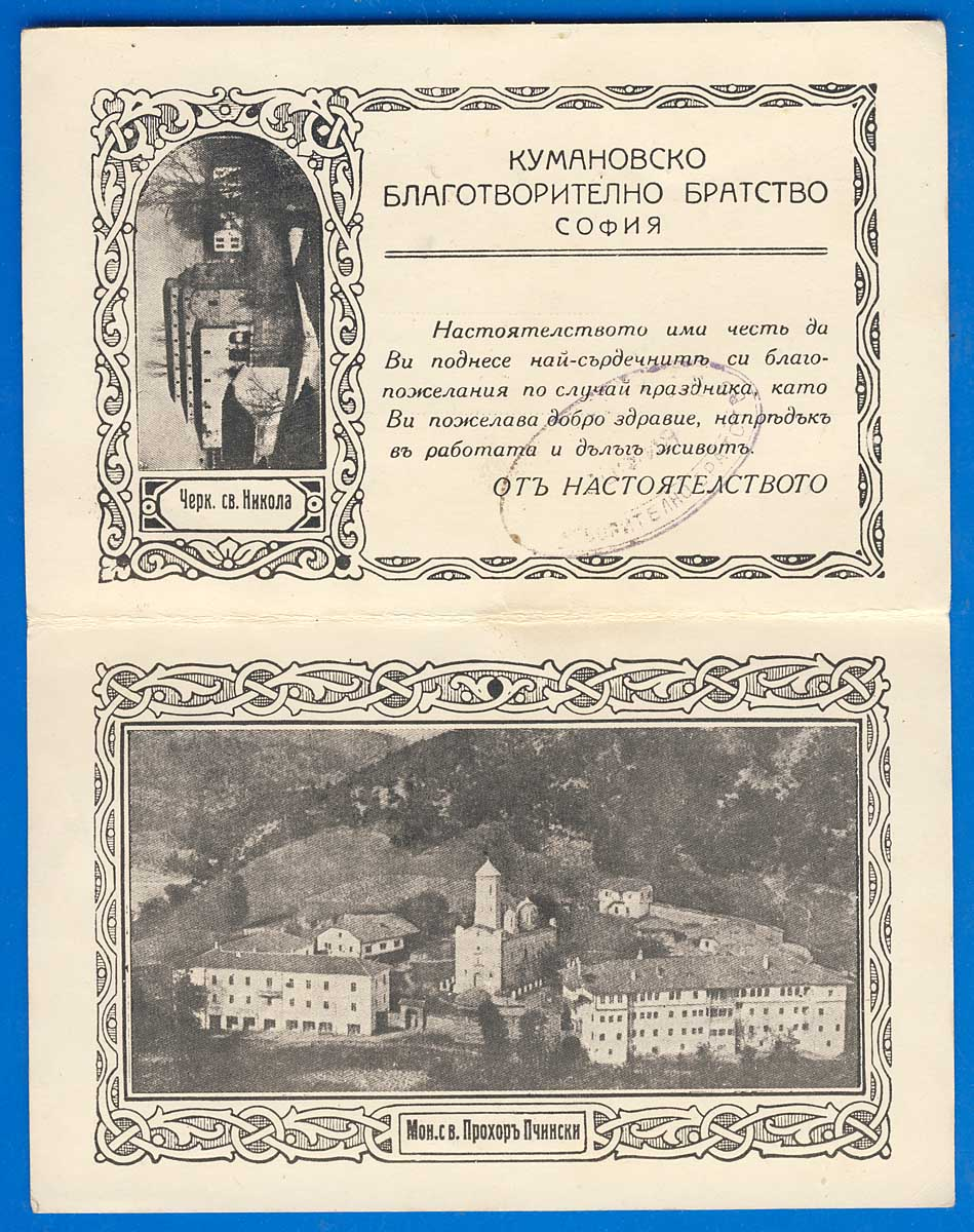 Sv. Prohor pictures from postcard of Kumanovo Charity Brotherhood Macedonia in Bulgaria